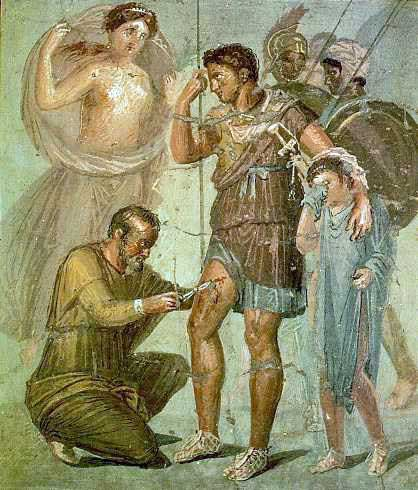 Militar doctor